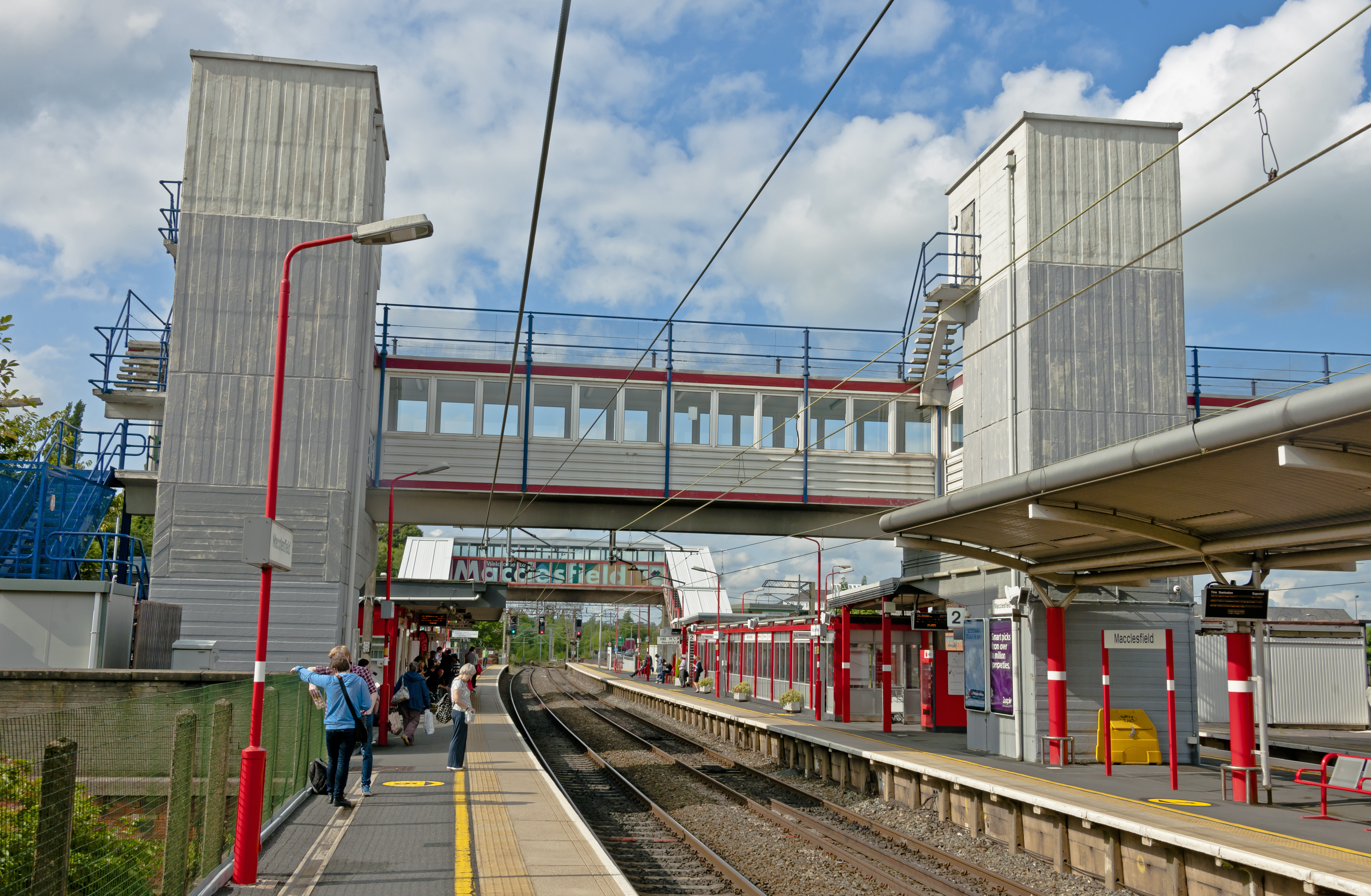 Macclesfield railway station, looking north from nearer the southern end of the platform